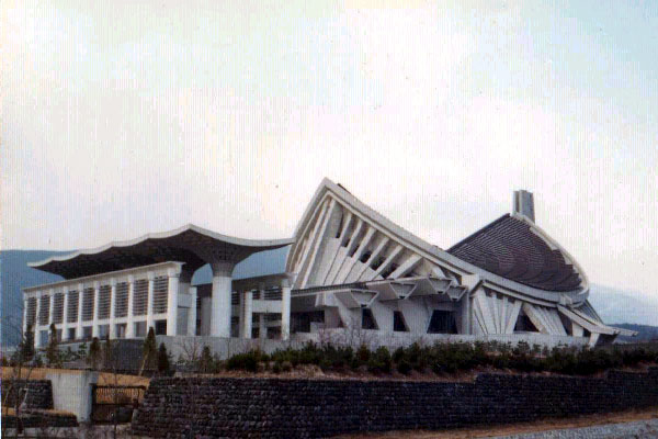 The Shohondo hall of the Taiseki-ji temple. Constructed in 1972, demolished in 1998. Photo taken in December 1979 by Japanese Wikipedia User Tetralemma